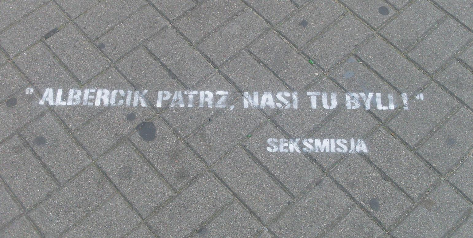 Quotation from polish film "Seksmisja". Painting at pavement 10 Lutego Street in Gdynia. Promote Polish Film Festival in Gdynia.